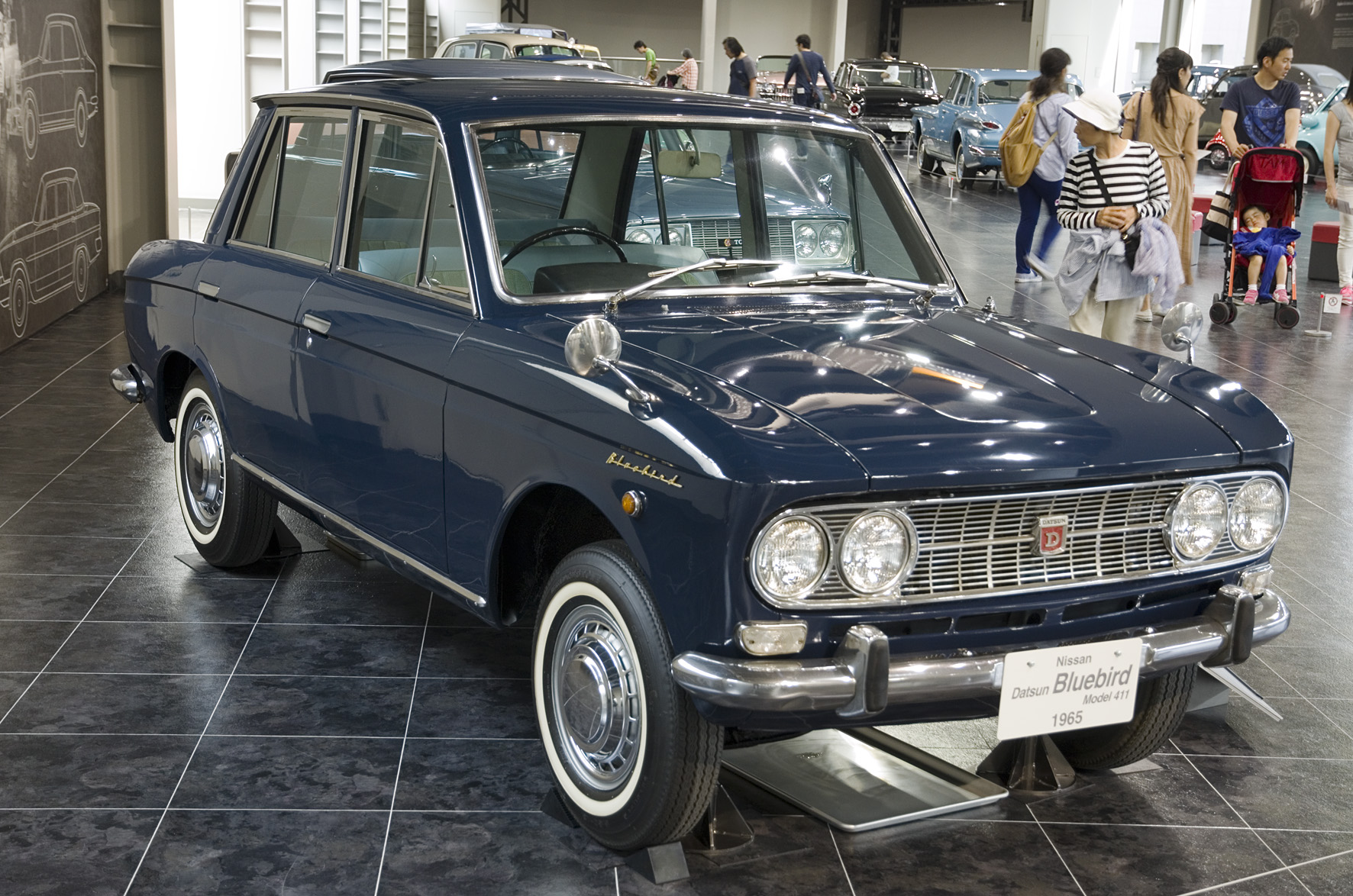 Nissan Datsun Bluebird 411 exhibited in Toyota muzeum, Nagoya